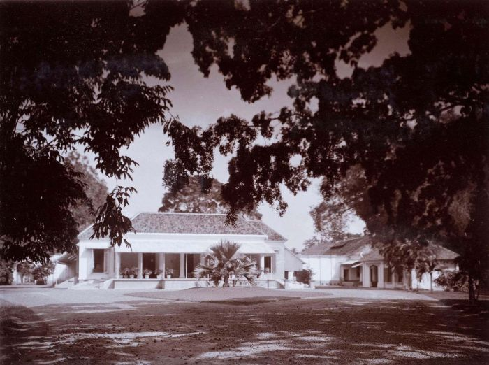 The house of the Resident